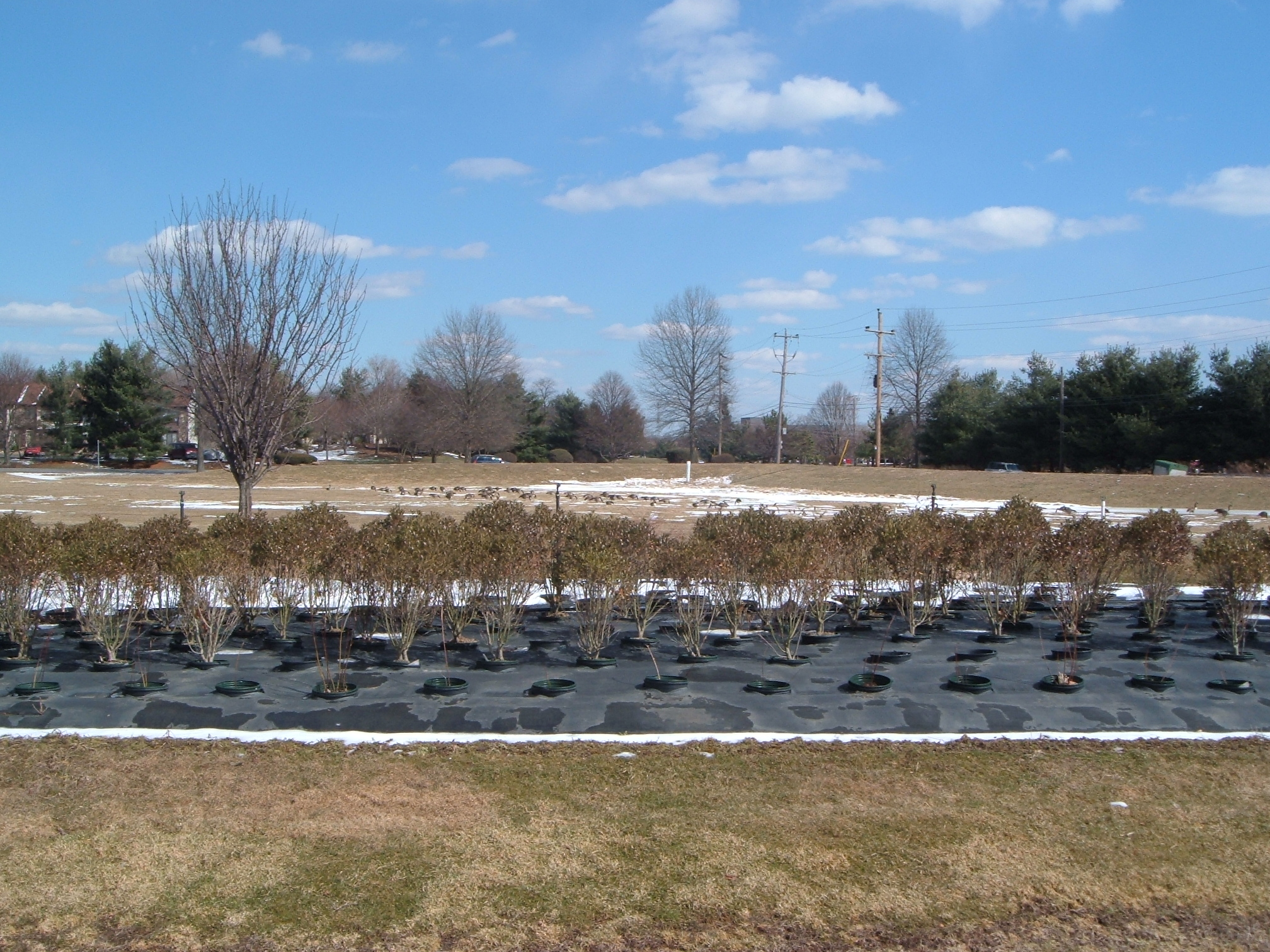 A pot-in-pot field